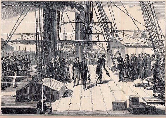 Francesco II embarks and leaves Gaeta on 14-2-1861.[1] The royal couple on the French military ship "La Mouette" that will take them lead them to exile in the state of the Church in Rome, they disembarked on the same day at Terracina and went onto Rome by carriage[2]